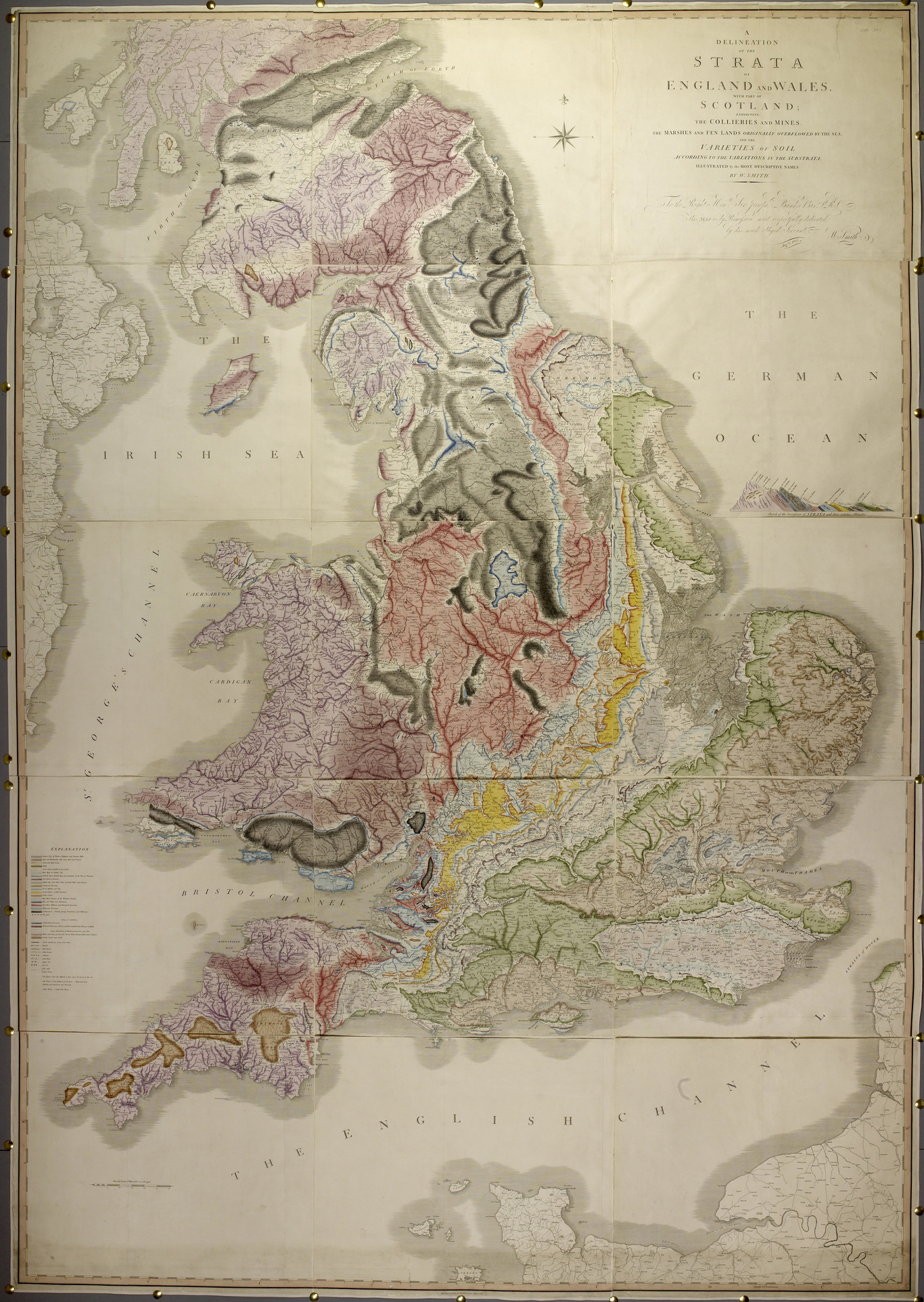 William Smith's geological map of 1815, called A Delineation of the Strata of England and Wales, with part of Scotland. It was the first geological map of this type. 1800 x 2576 mm.; British statute miles, 30[ = 155 mm].